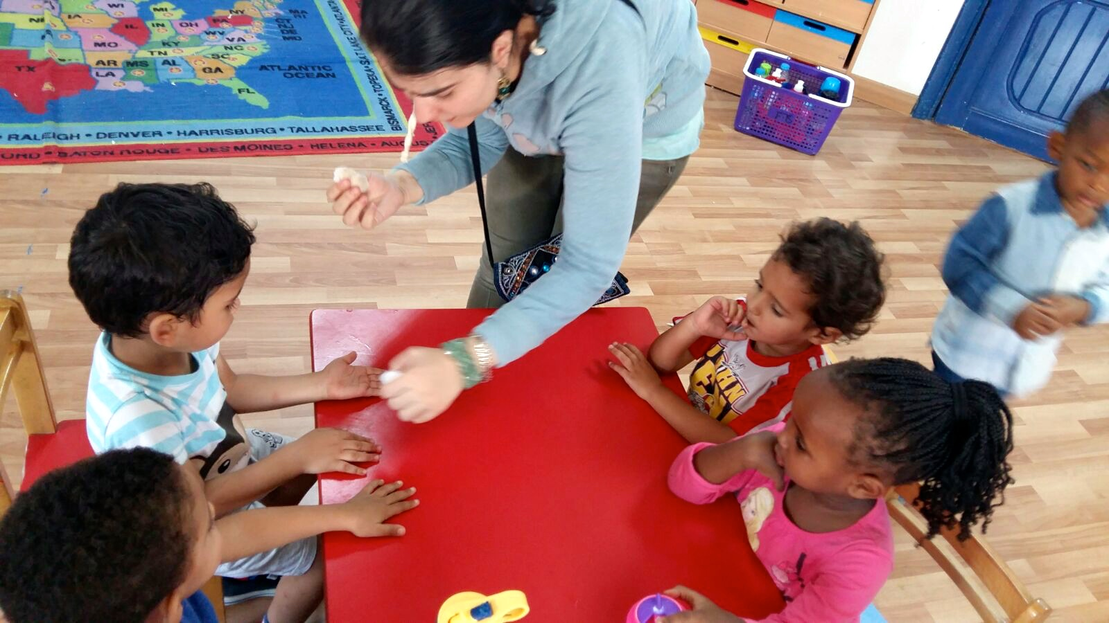 'Wet & Dry Experiment' in science class for preschoolers This is an image of "African people at work" from Egypt